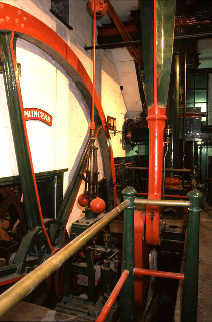 Beam engine Princess Installed secondhand in 1856 and probably 1820s-30s vintage. Single cylinder condensing beam engine driving grinding pans.